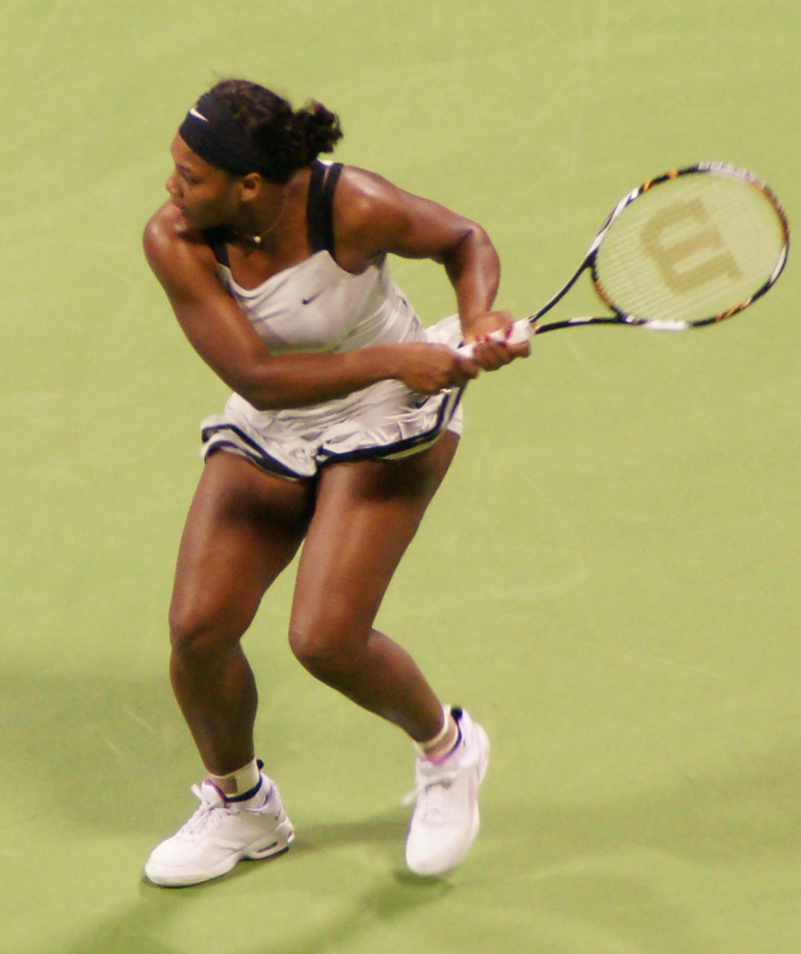 Serena Williams at the 2008 WTA Tour Championships